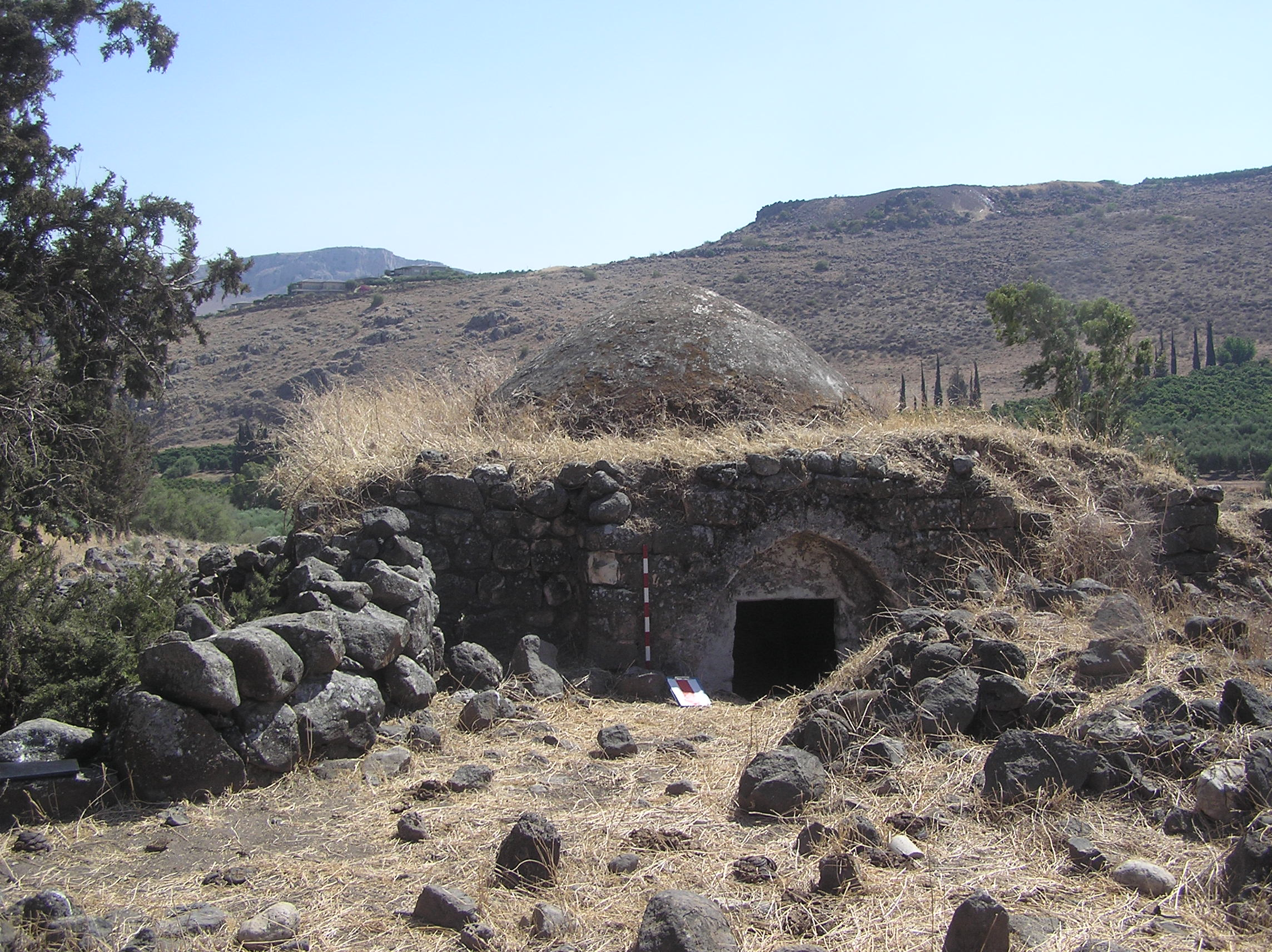 Maqam of Sheikh Abu Shusha near kibbutz Migdal.